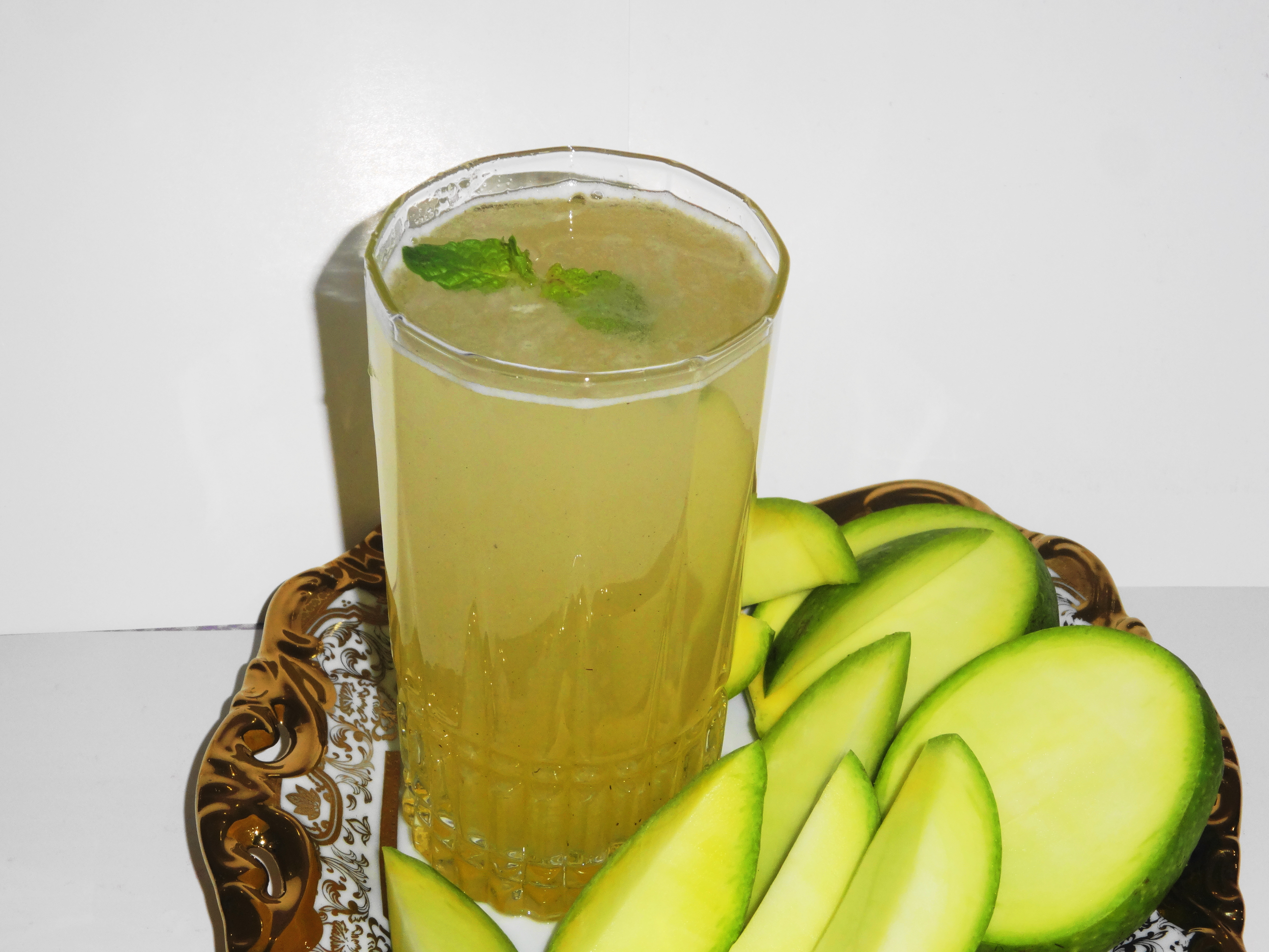 AAM PANNA. Aam Panna, کیری کا شربت , Raw Mango Syrup